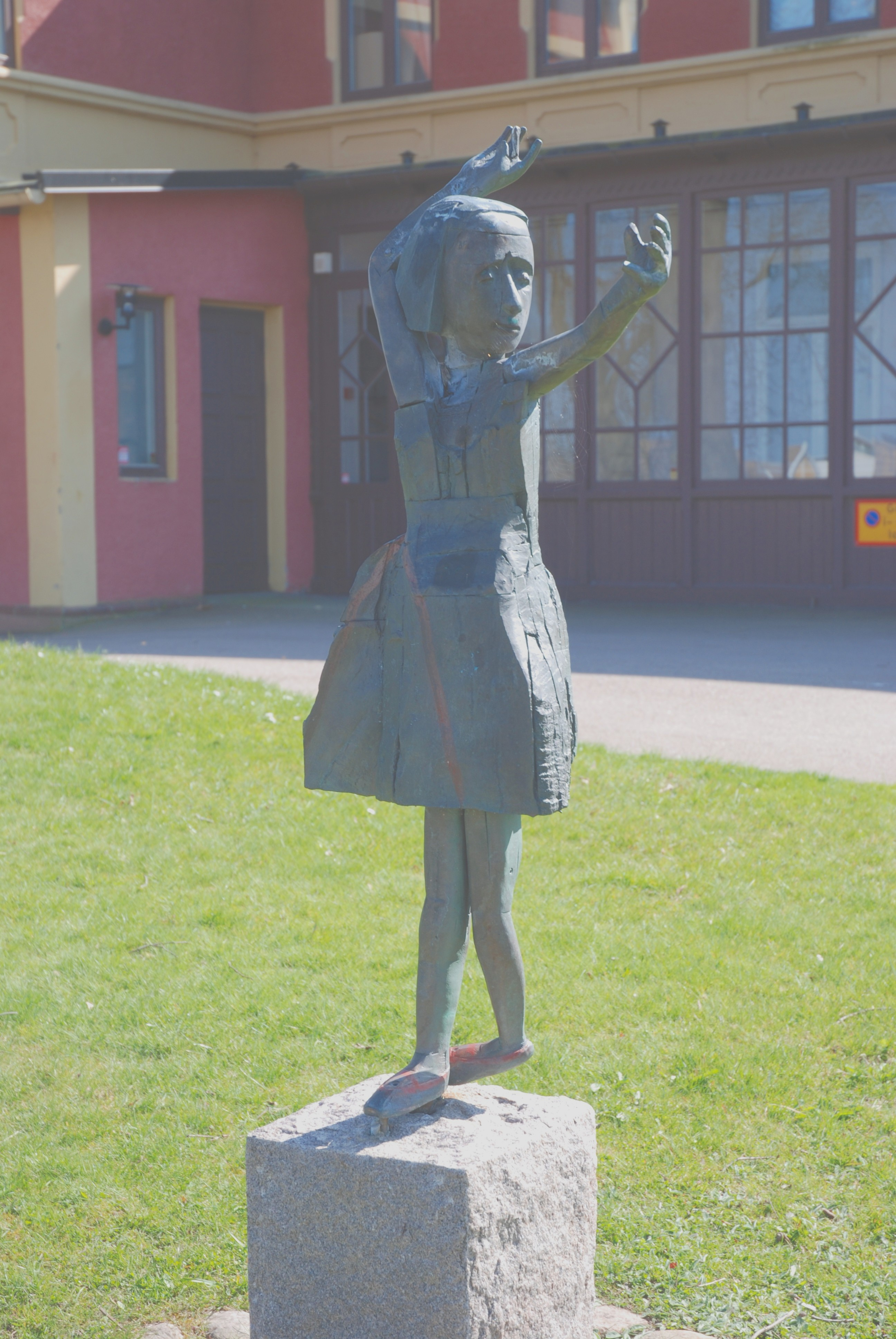 Torsten Renqvist´s Dansande flicka (Dancing girl), Höganäs, Sweden